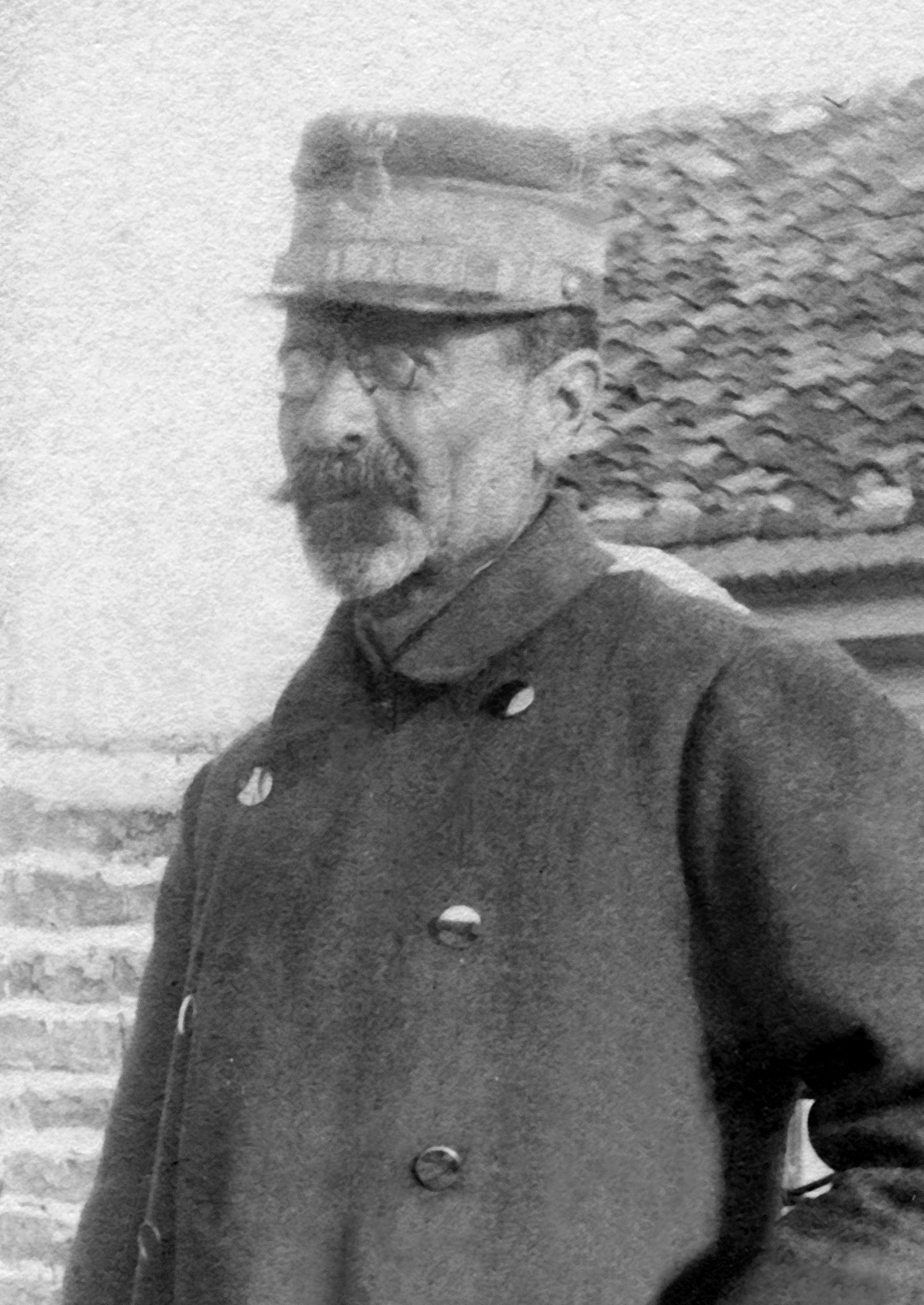 General Konstantinos Kallaris in Philippiada, during the First Balkan War. Photograph by Romaides & Zeitz of 1913.